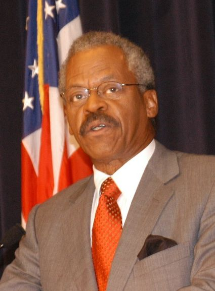 Former CNN anchor Bernard Shaw, 2004.